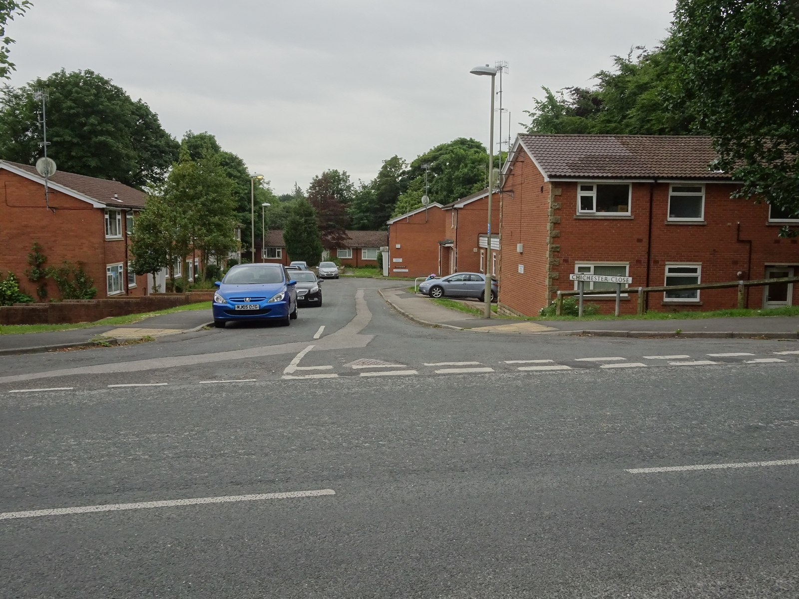 Scalby railway station (site), YorkshireOpened in 1885 on the North Eastern Railway's line from Redcar to Scarborough, this station closed in 1964. View south towards Scarborough from near the former road bridge. The station site has been completely redeveloped and is now occupied by Chichester Close.